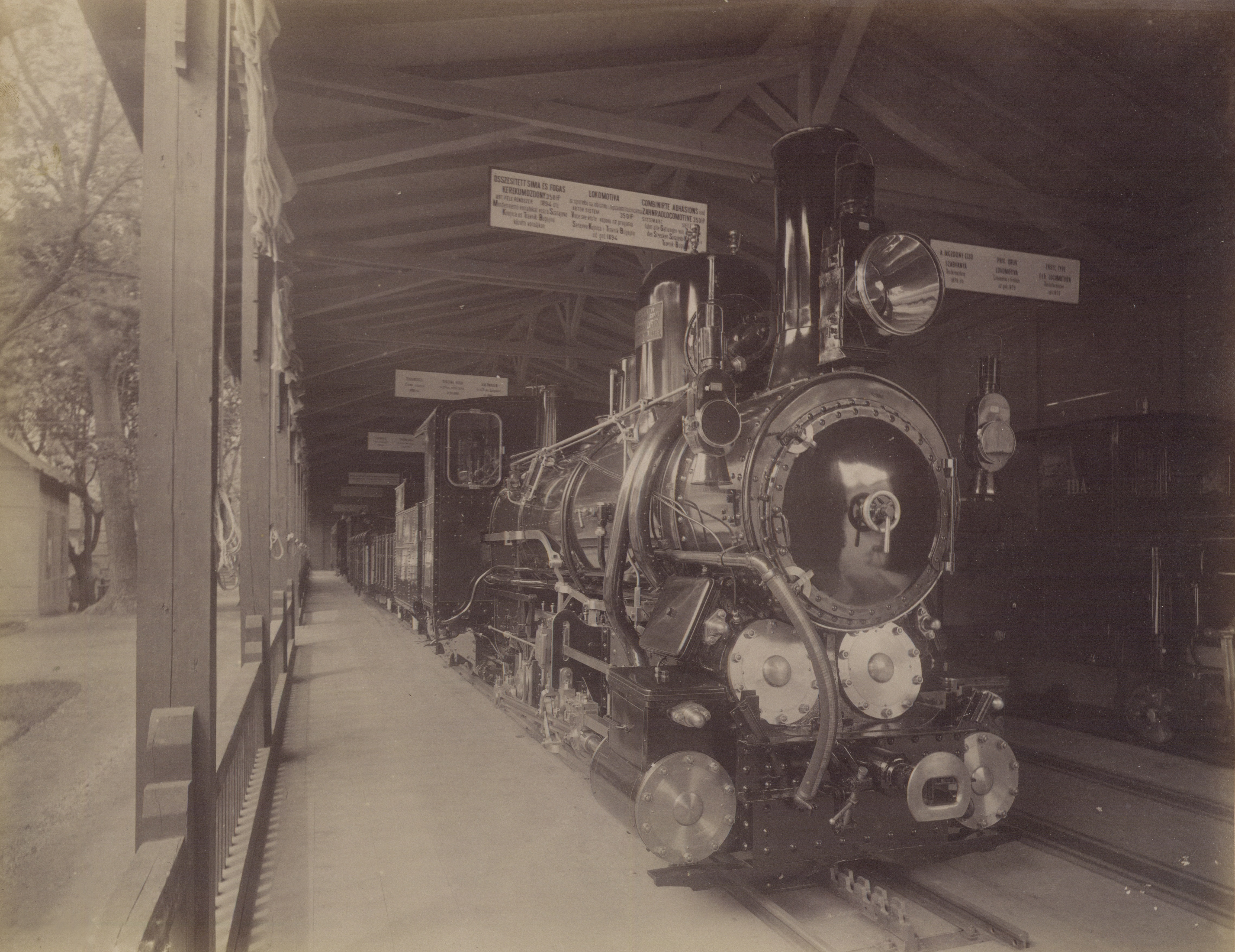 Hungary, Budapest XIV, City Park, "Hungarian National Millennium Exhibition of 1896" - The new Bosnian state railway locomotive. This locomotive was manufactured by Lokomotivfabrik Floridsdorf in 1896 (No. 1001) for the rack railways in Bosnia and Herzegovina (Sarajevo - Konjic and Travnik - Bugojno). Its number was BHStB 705, and later JDŽ 97-005. The first locomotive of this type was manufactured in 1894.